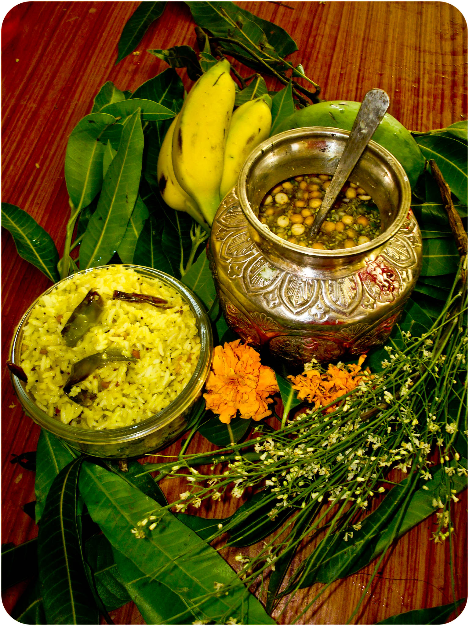 Ugadi or Yugadi (Yuga (age) + adi (start)) is the New Year of native Telugu speakers. Ugadi Pacchadi is made on this day and consumed by all the members of household and offered to the guests who come in to wish new year. It is made of new jaggery, raw mango pieces, coconut, neem flowers and new tamarind which reflect various tastes of life. Also shown in picture is Pulihora (tamarind rice) which is a savoury rice made in South Indian households. It is generally served as prasadam in many temples.